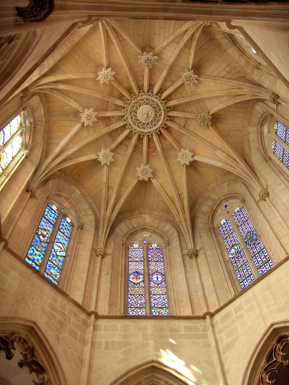 Stellar vault of the Founder's Chapel; Monastery of Batalha, Portugal